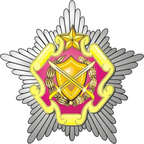 The emblem of the Land Forces of Belarus Беларуская (тарашкевіца): Эмблема сухапутных сілаў Рэспублікі Беларусь